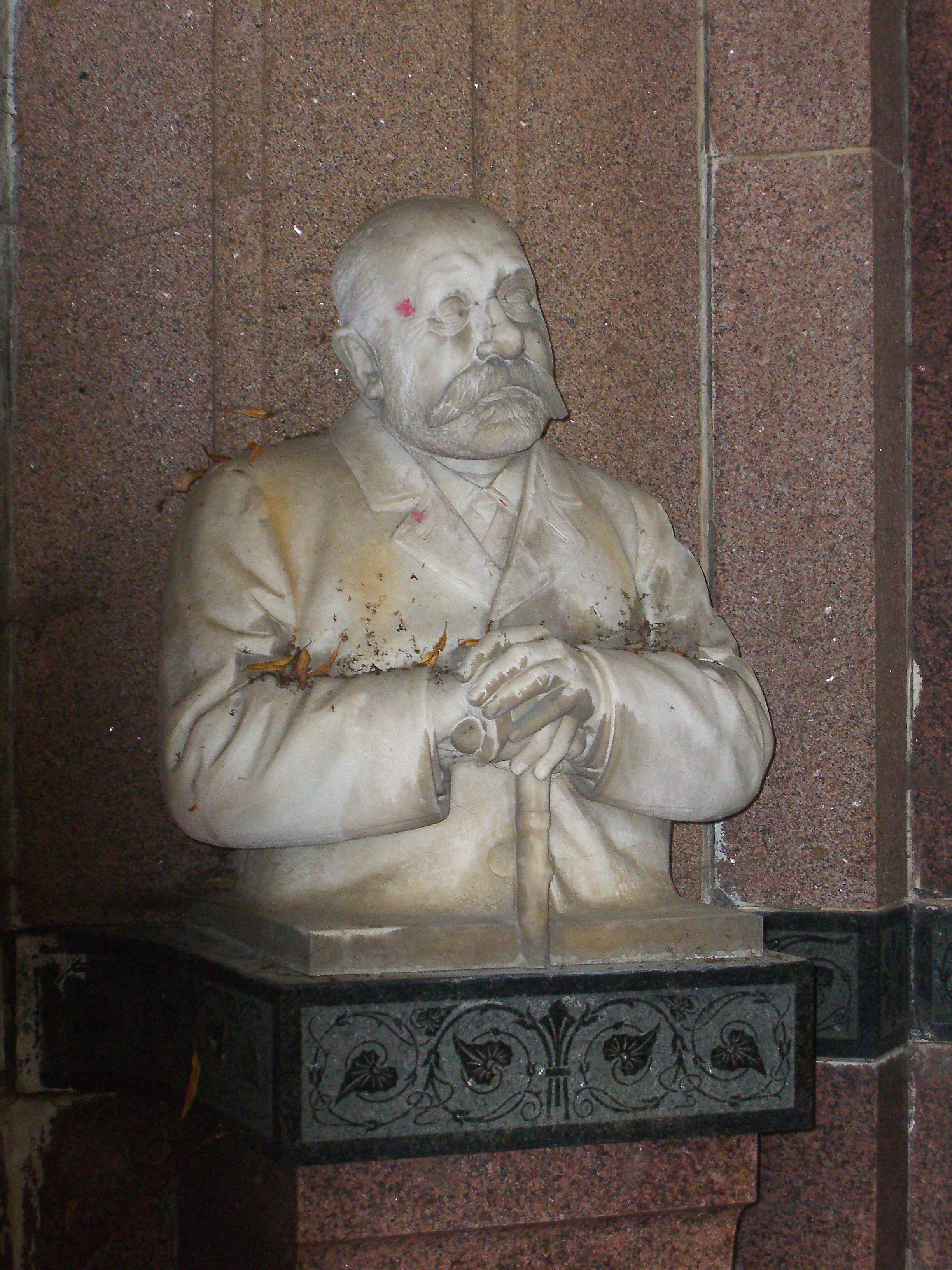 Mausoleum Heinrich Wessel in Pohnstorf near Teterow, bust Heinrich Wessel by Martin Goetze